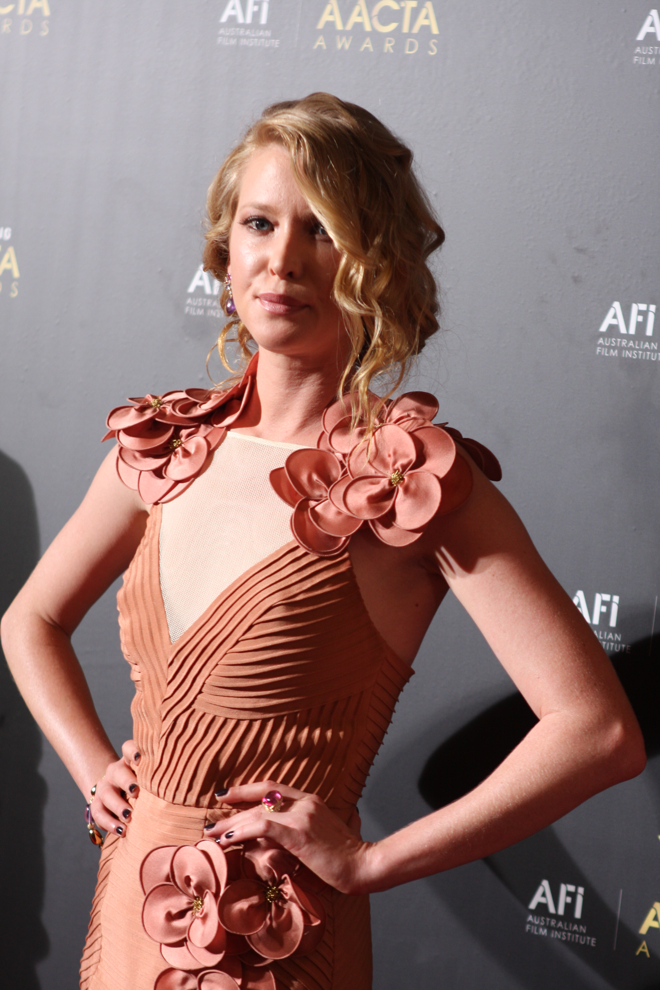 Australian Actress Emma Booth wearing a gown designed by Yeojin Bae at the 2012 Samsung AACTA Awards Ceremony [1]